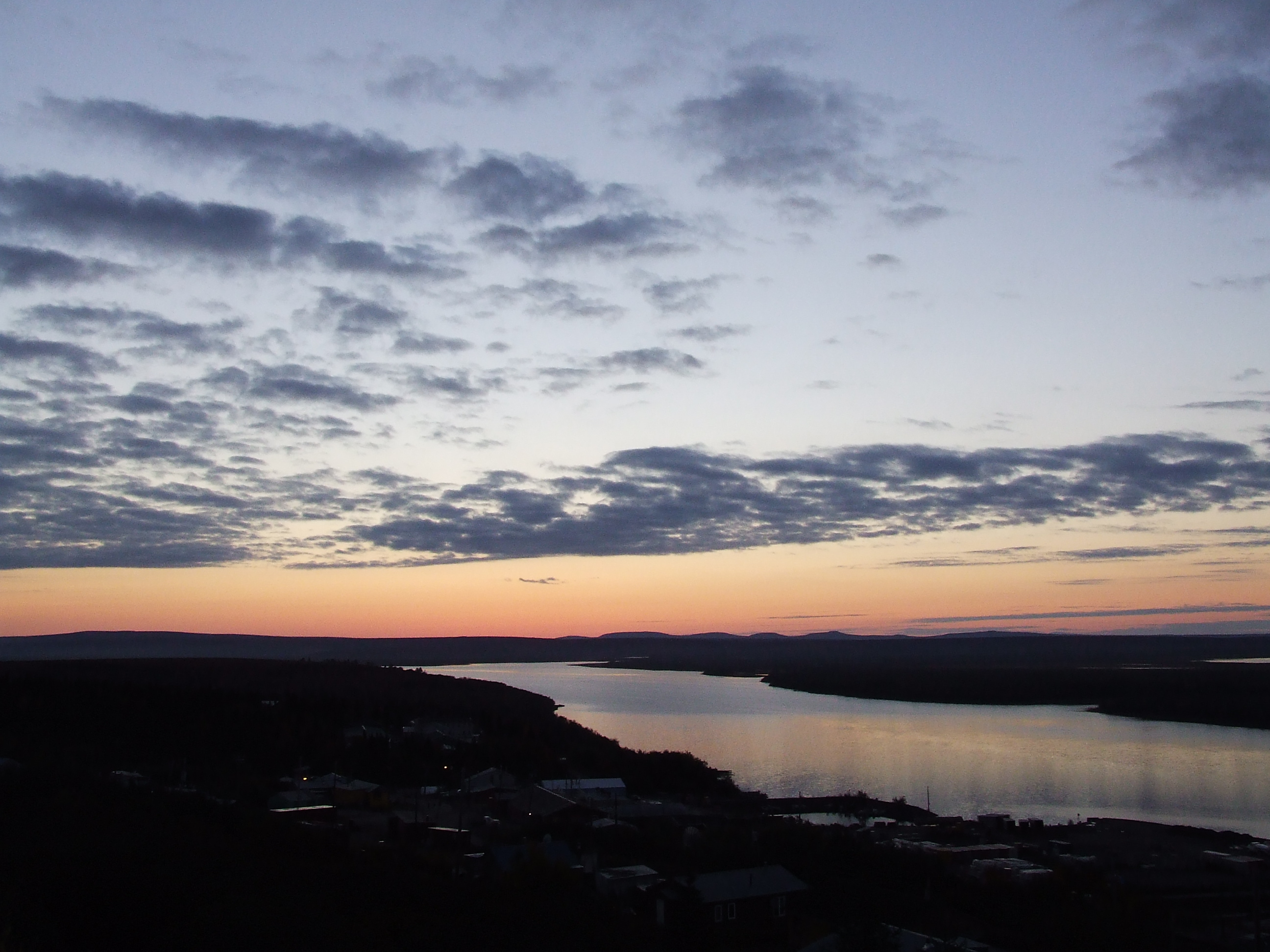 St Mary's Alaska - Sunrise over the Andreafsky River